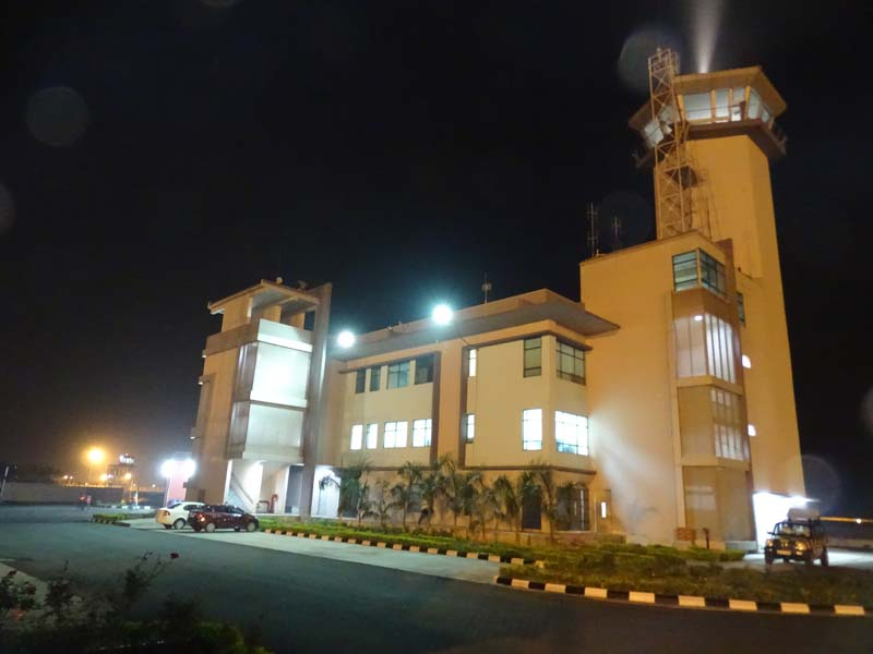 Air Traffic Control, KNI Airport, Andal, Durgapur